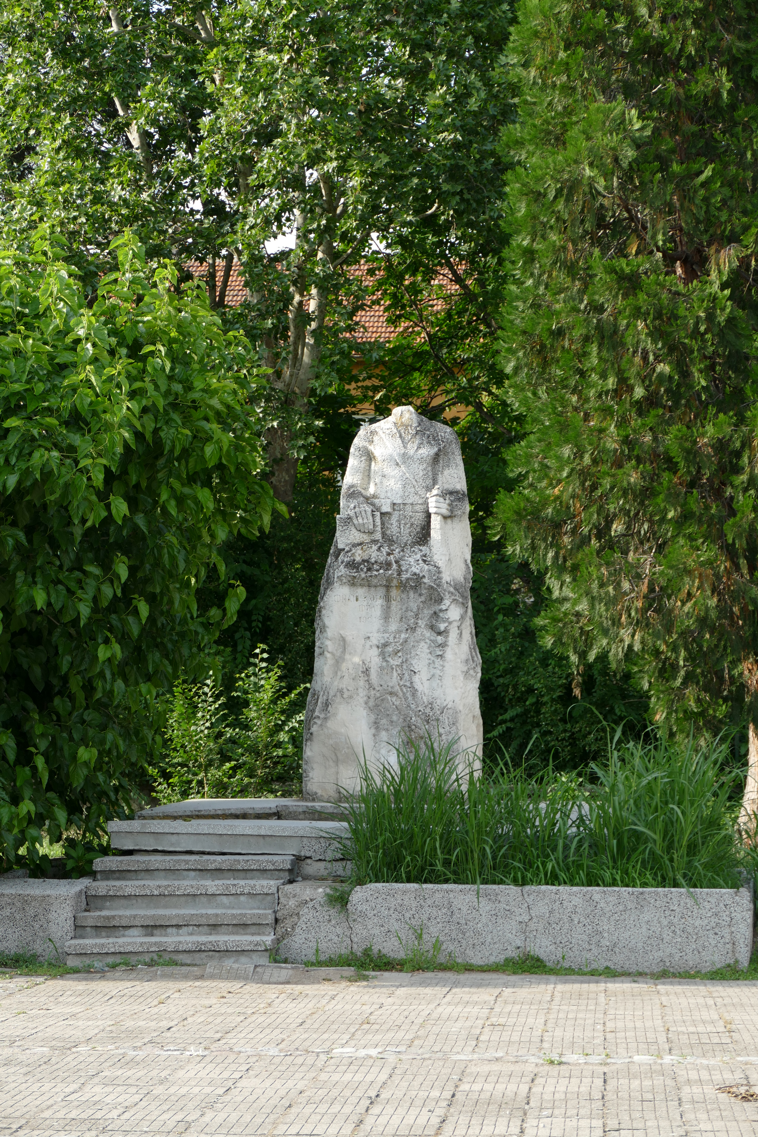 Varbitsa main square, War memorial